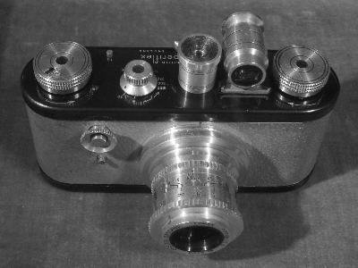 The Corfield Periflex camera of 1953